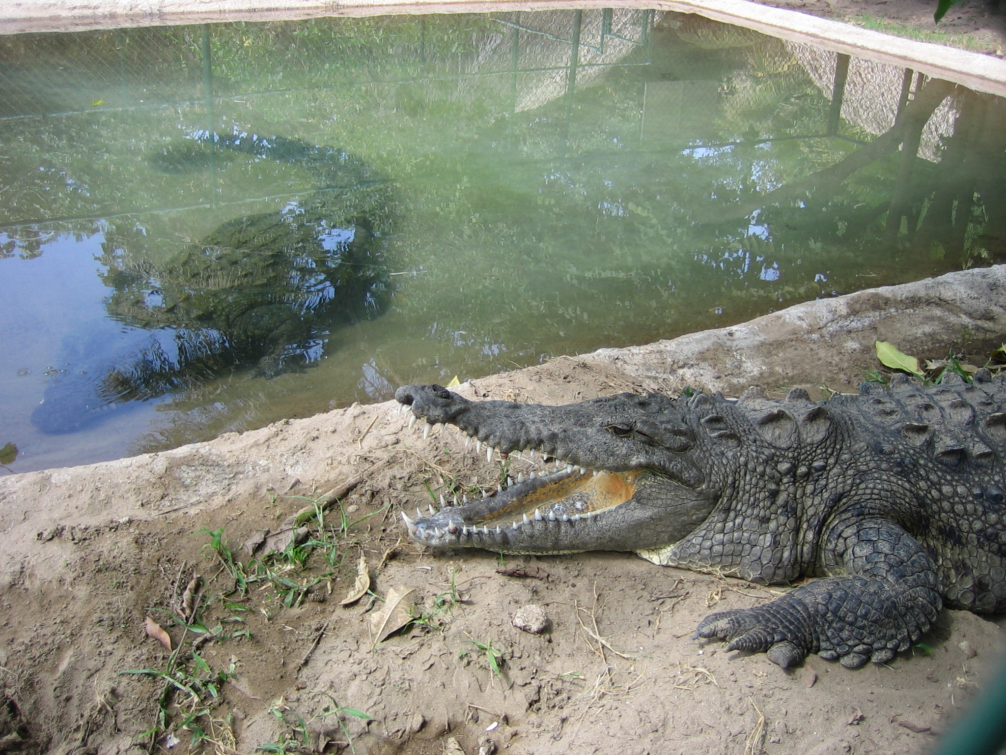 Crocodile farm in Mexico. Canon PowerShot SD200